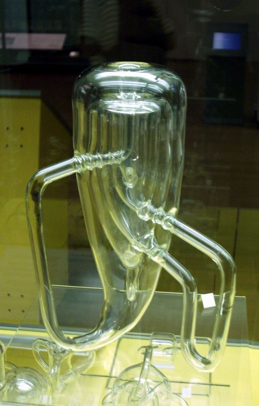 Bennett's masterpiece, three Klein bottles inside each other. Of course "inside" is only true in the sense of being embedded in physical space, topologically they are to be regarded as completely separate.